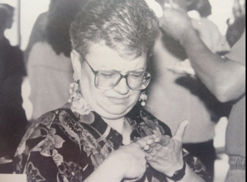 Marie Jean Philip in the 1990's